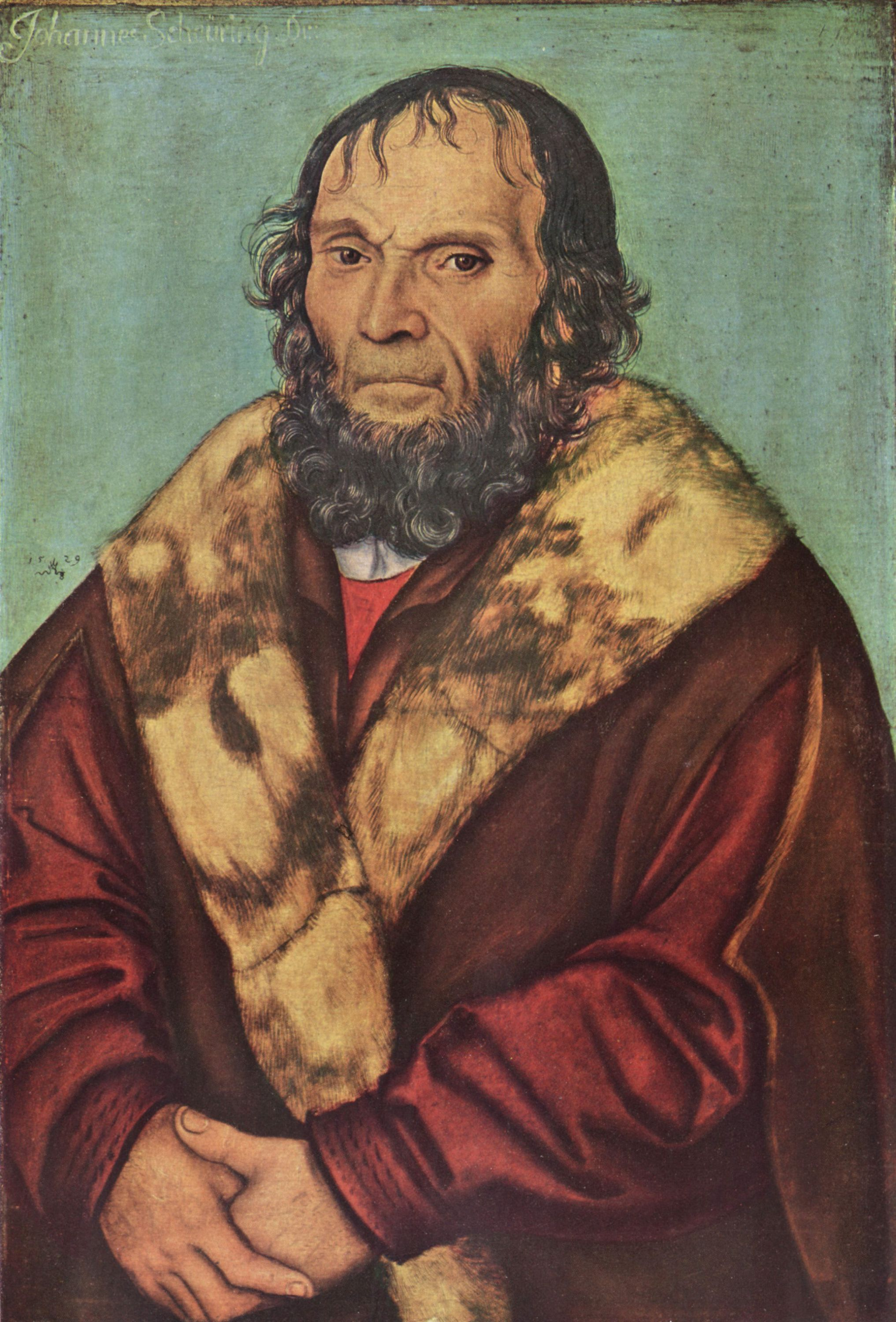 Porträt des Magdeburger Theologen Dr. Johannes Schöner 52 × 35 cm Öl auf Holz